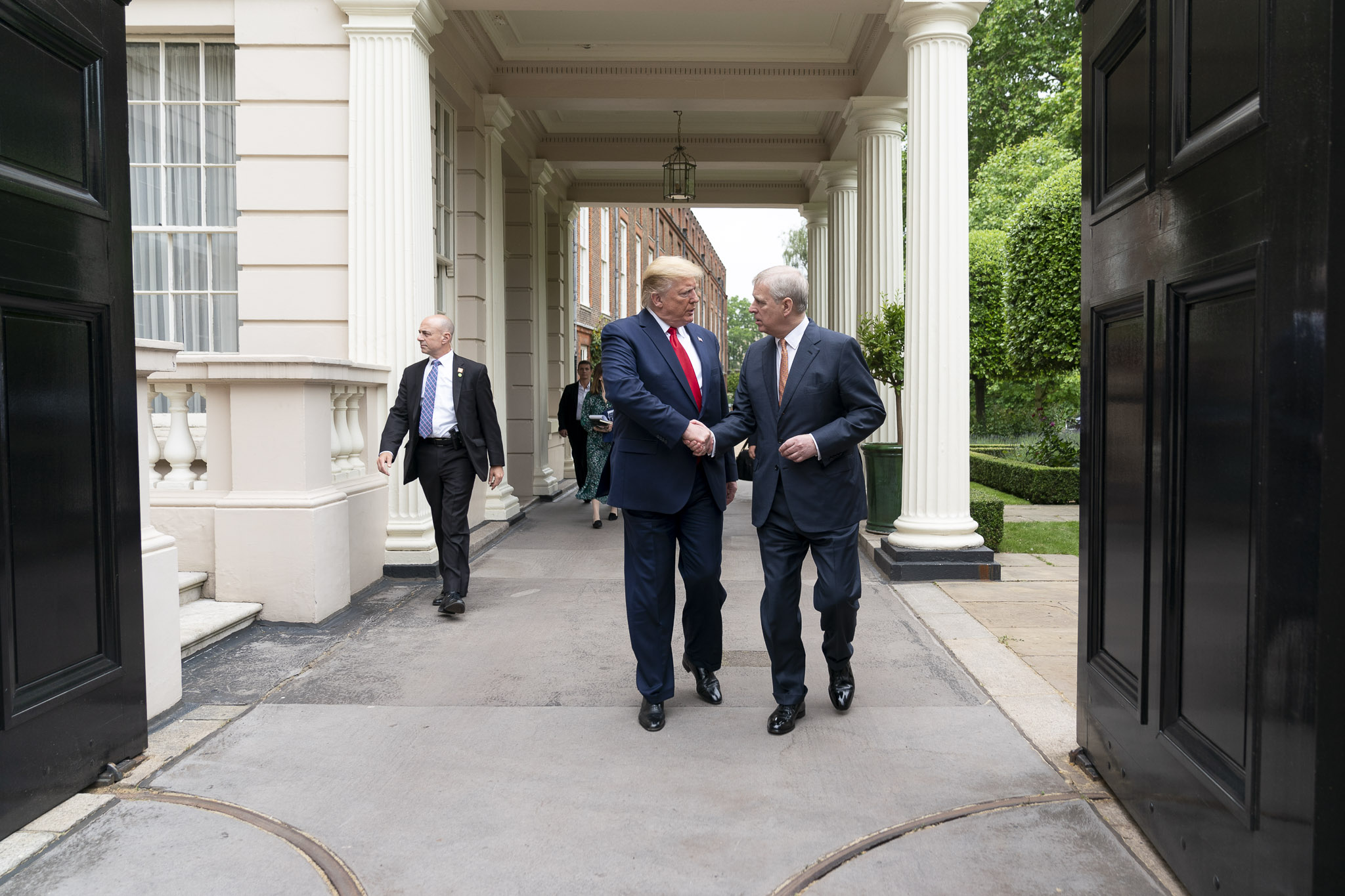 President Donald J. Trump is met by His Royal Highness Prince Andrew outside St. James’s Palace in London Tuesday, June 4, 2019 en route to No. 10 Downing Street. (Official White House Photo by Shealah Craighead)